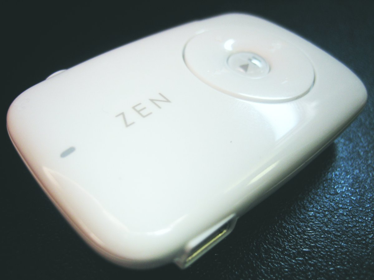 Photo of a Creative ZEN Stone. Originally from Flickr. Color Adjusted and Brightened by User:Rugby471